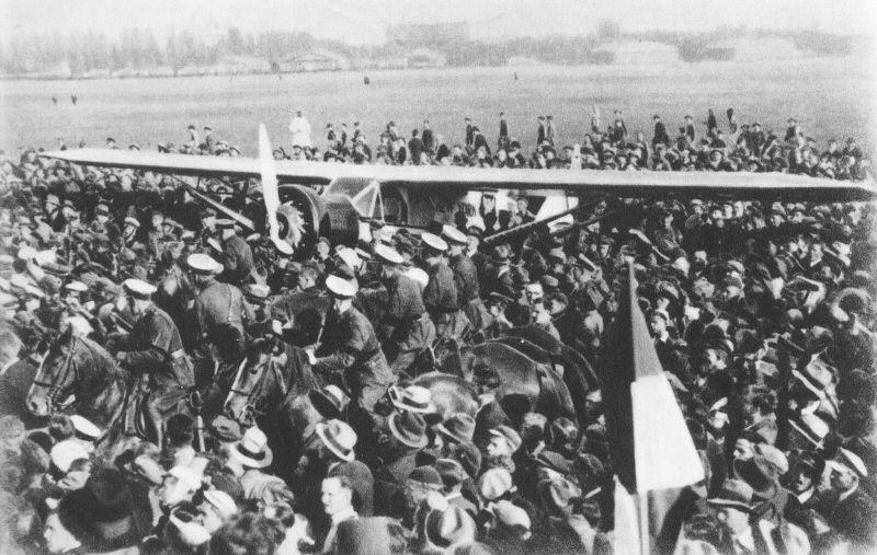 Bellanca J-300 "City of Warsaw" (registration NR797W, c/n 3003) aircraft of Ben and Joe Adamowicz brothers in Warsaw, after their flight across Atlantic to Poland, July 2 (?), 1934.